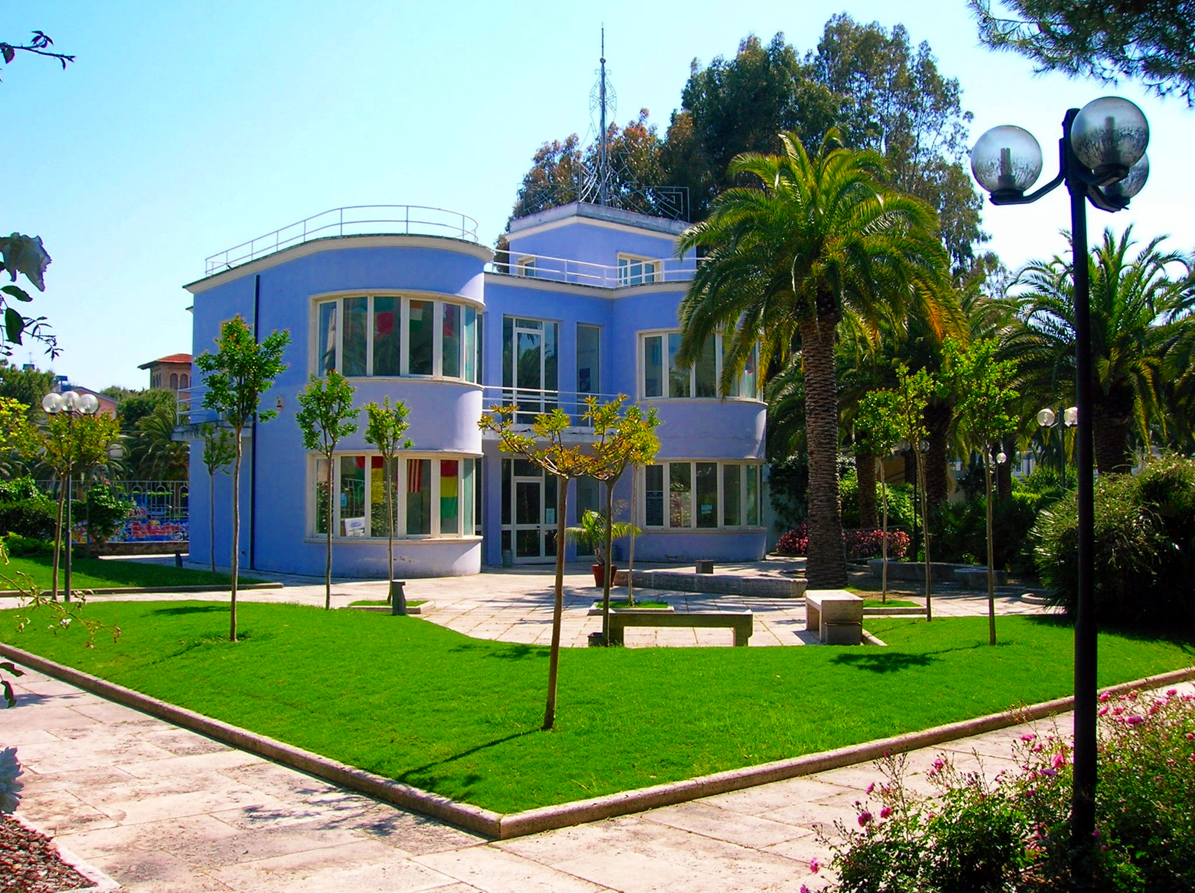 The Palazzina Azzurra was inaugurated on 1 September 1934. In a purely rationalistic style, typical of the fascist era, it was built next to the two tennis courts and the Circolo Forestieri. The two-storey building, painted in blue, housed on the ground floor bars, lounges, showers and services for men and women. After a period of decline, the Municipality of San Benedetto brought the structure back to its citizenship in the most authentic sense, with spaces for the promotion and dissemination of art, with exhibition rooms, offices and services, all completed by a park.